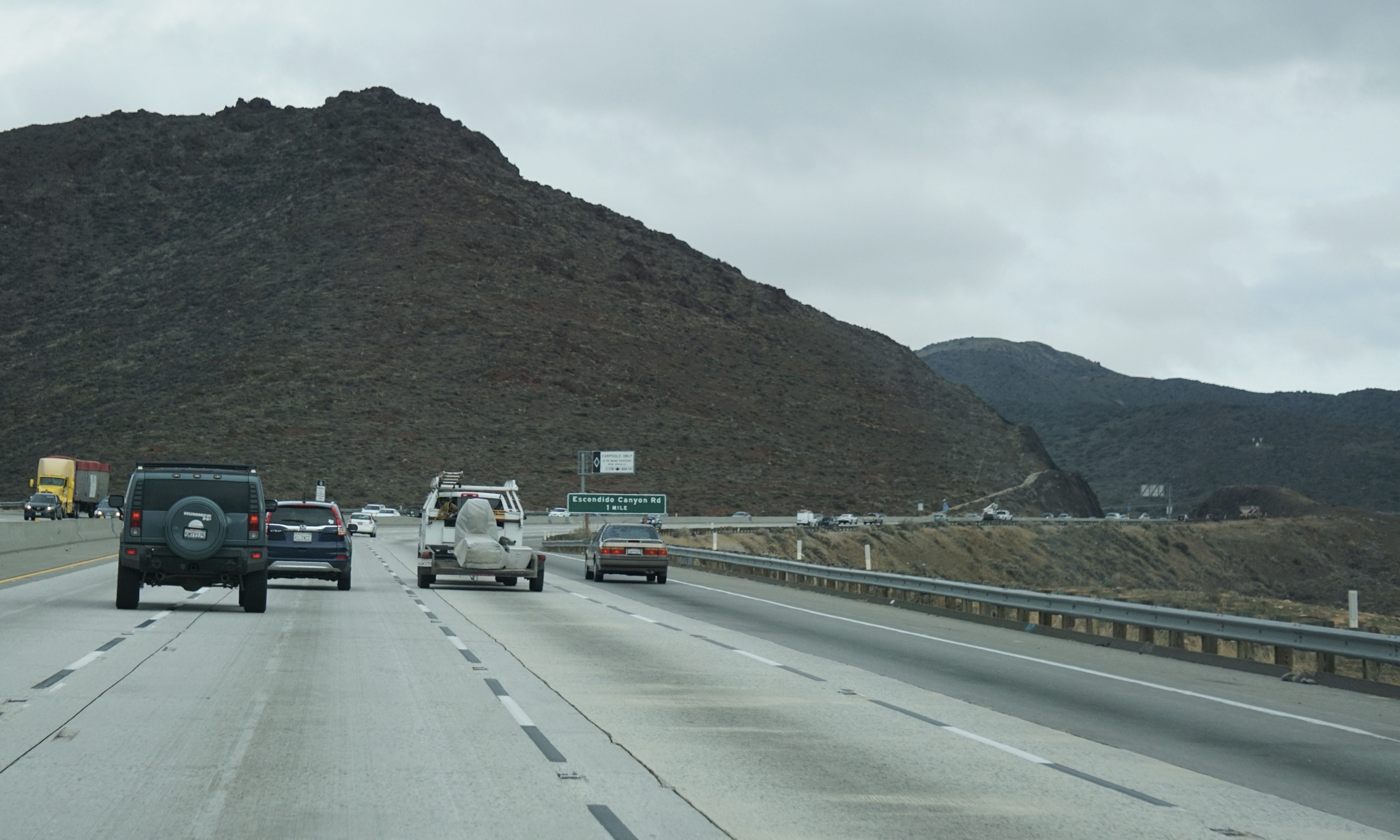 Approaching Escondido Summit from northbound Highway 14.